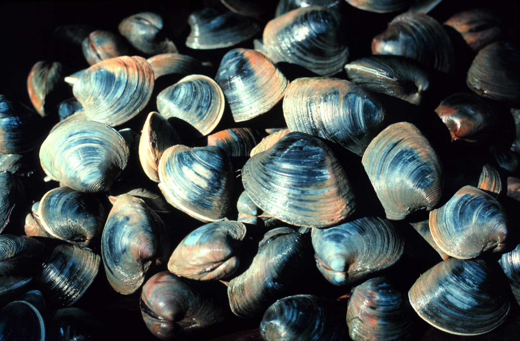 North Inlet - Winyah Bay National Estuarine Research Reserve. The Northern quahog, Mercenaria mercenaria, thrives in the muddy sands of estuaries. Vicinity of Georgetown, South Carolina.